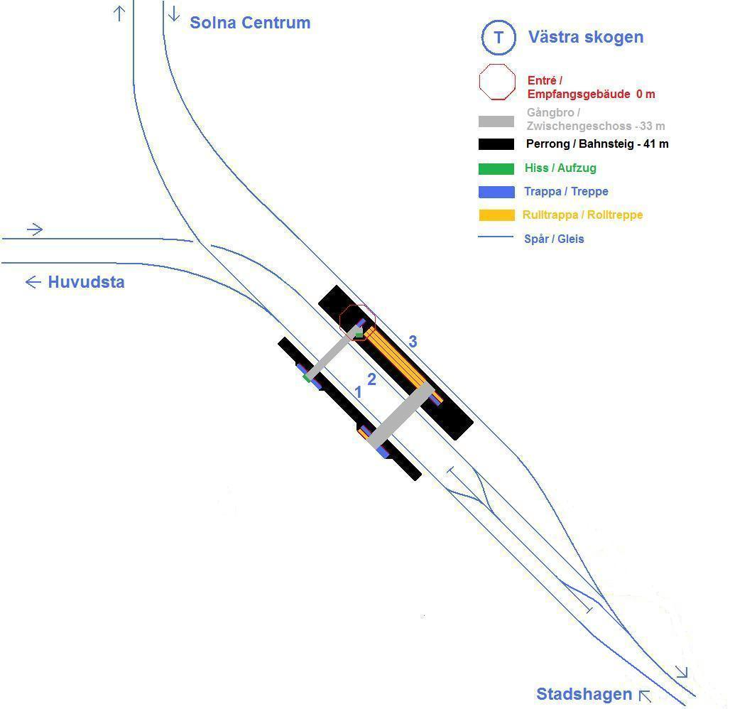 Västra skogen T-bana layout